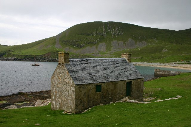 The Feather Store, St Kilda, Scotland. This renovated house was used by the St Kildans to store feathers taken from fulmars and gannets, and sold as one way to pay the rent.